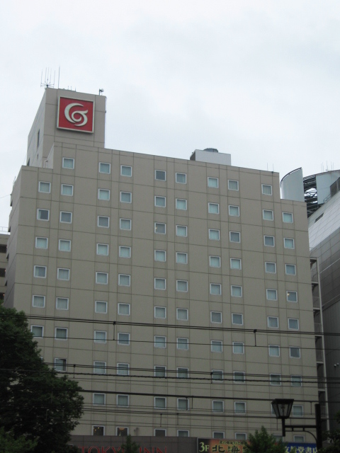 Shibuya Tokyu REI Hotel.